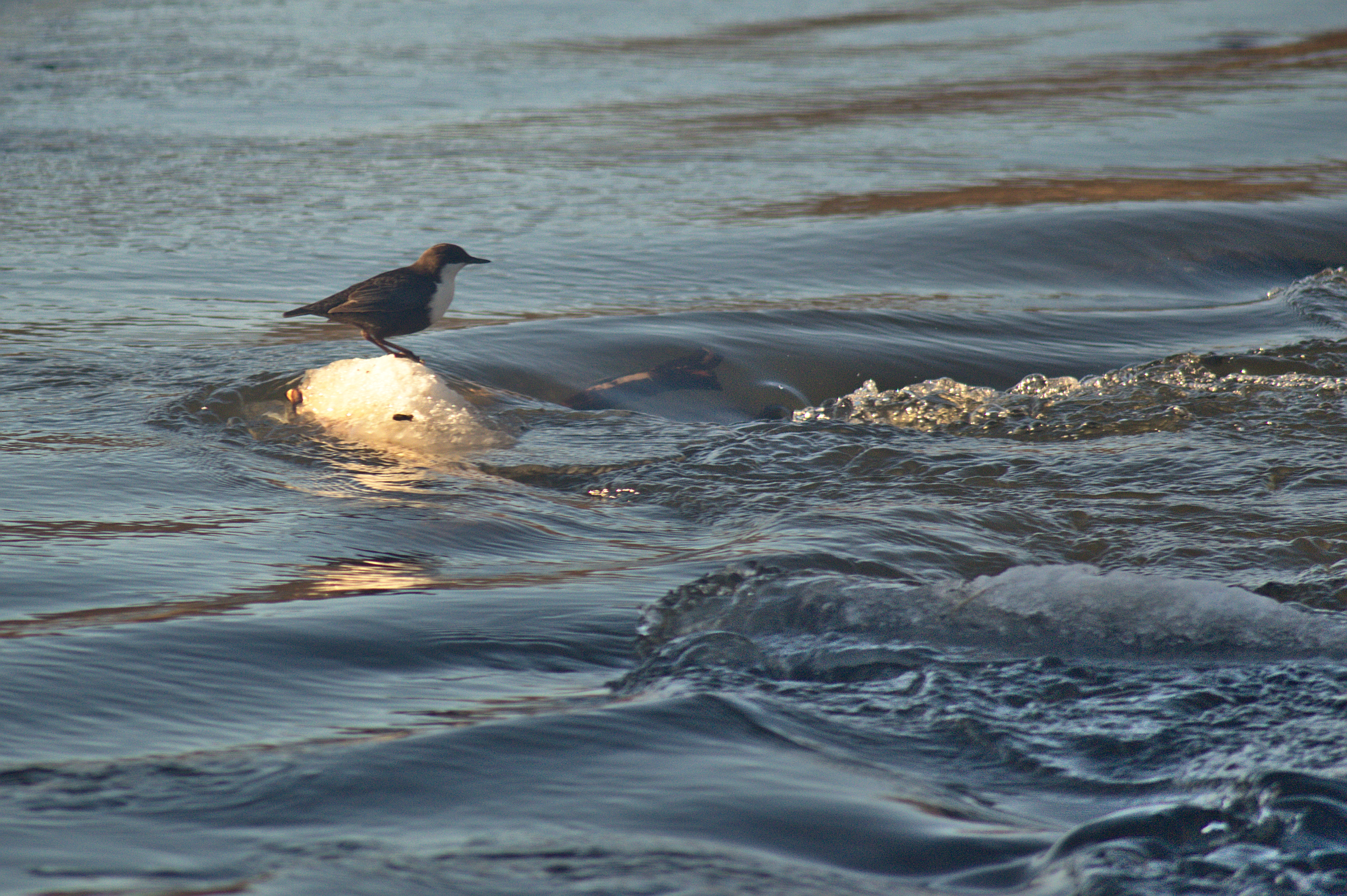 White-throated dipper (Cinclus cinclus), Eskilstuna, Sweden. February 2015.